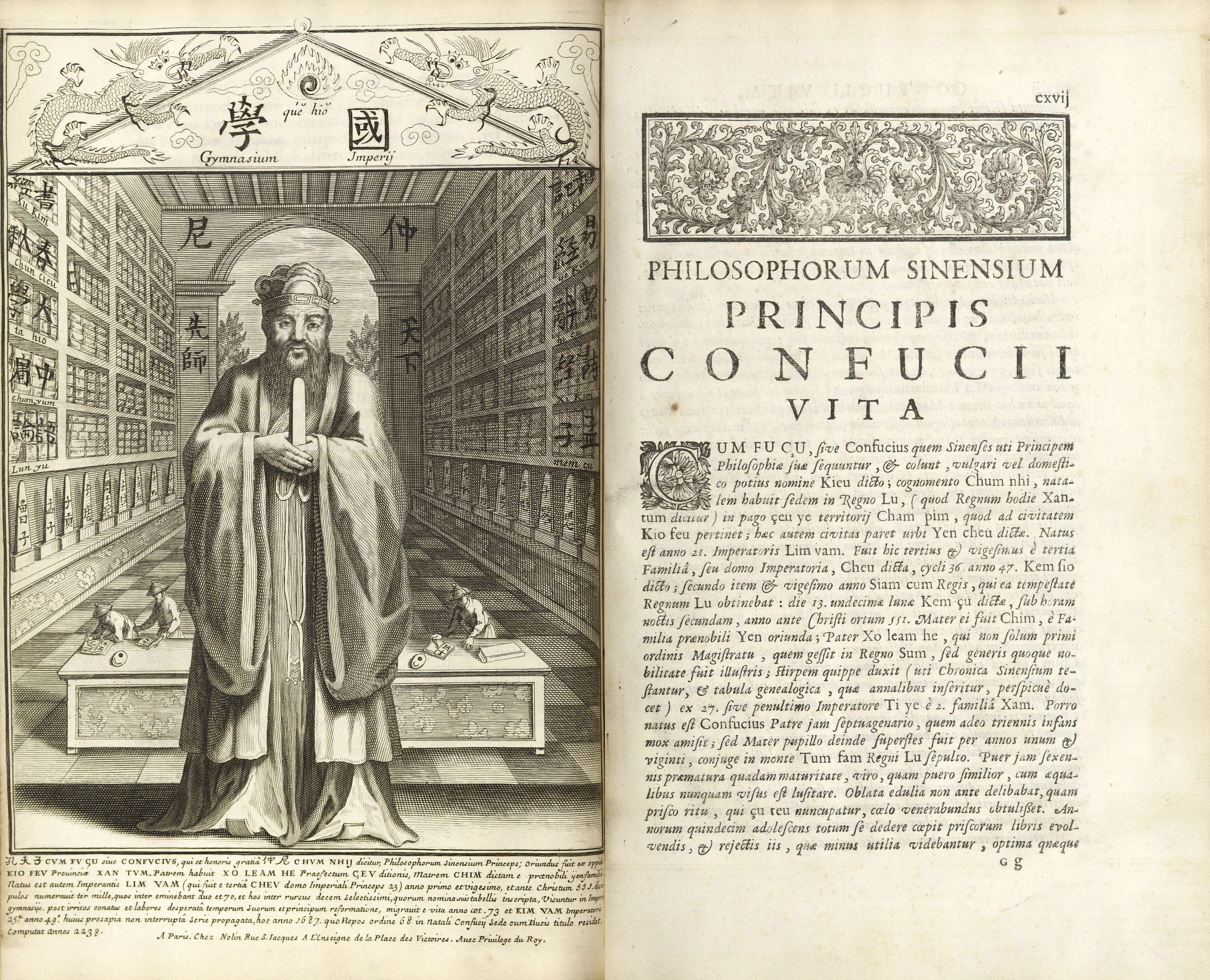 Pages from Confucius Sinarum Philosophus ("Confucius, the Philosopher of the Chinese"), an annotated Latin translation of three of the "Four Books" of Qing Confucianism by Prospero Intorcetta, Philip Couplet, Rougemont, and Herdtrich (Paris, 1687). On the left is a portrait of Confucius in a Confucian temple, surrounded by the spirit tablets of the Four Assessors and the Twelve Wise Ones. Many of the characters on the tablets are gibberish—the unidentifiable remaining four disciples are Ziruo (子若), Boniu (伯牛), Ziyou (子有), and Zhuzi (朱子)—and there are an unexplained further two tablets as well. The image of Confucius was later used as the model of the engraving in Du Halde's Description of China. The right page reads "The Life of Confucius, Prince/First of the Chinese Philosophers".Mungello (Curious Land, 1989) opined that the translation represented the collective efforts of several generations of Jesuits from Ruggieri and Ricci onward, all of whom studied and continuously improved the translation and commentary. For his part, Du Halde preferred the later translation of François Noël.